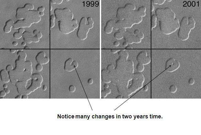 South pole changes in two year period, as seen by Mars Global Surveyor. This image was taken with the Mars Orbital Camera MOC) on the Mars Global Surveyor (MGS). The photo credit is Malin Space Science Systems/NASA.